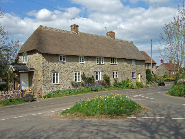 Church Farm Cottage, Ryme Intrinseca, Dorset, seen from the south